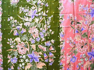 Coastal batik with buketan motif from Pekalongan, Central Java. The name buketan derived from the word "bouquet". This floral bouquet pattern first appeared during the Dutch colonial era.